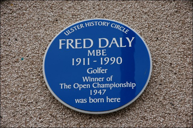 Fred Daly plaque, Portrush This plaque, commemorating the golfer Fred Daly, is in Causeway Street.